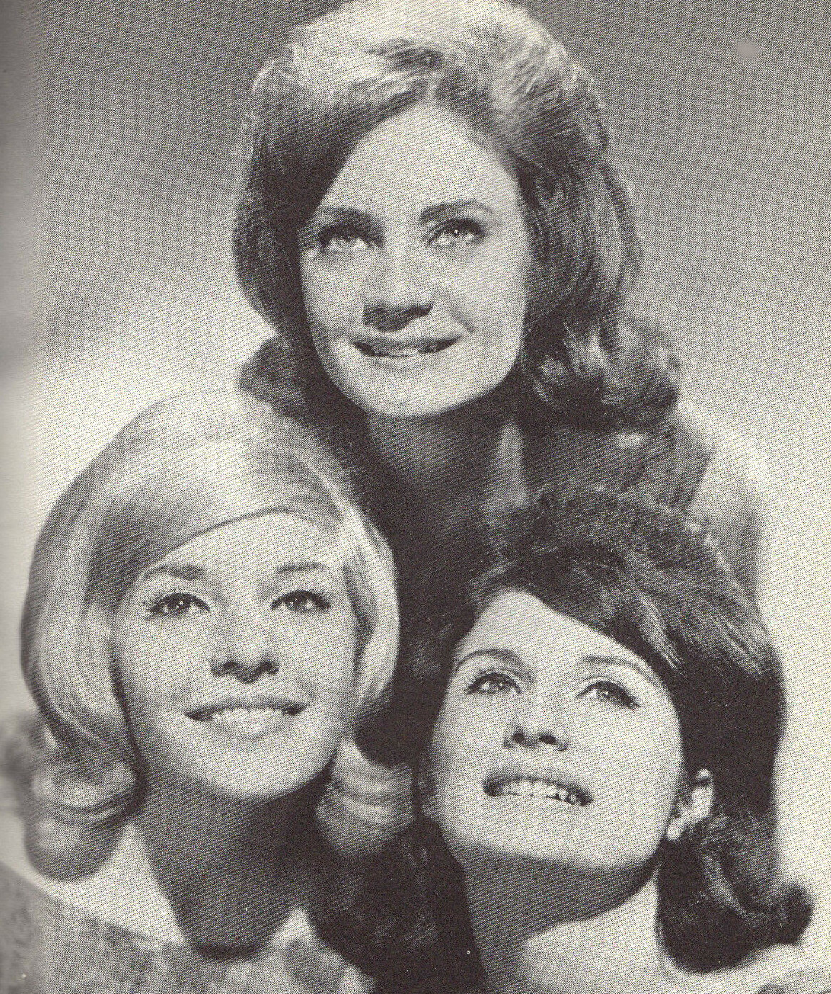 Photo of the vocal group The Angels from a program for noted New York disc jockey Murray the K's Holiday Revue of 1961. He was well-known for hosting live music shows in the New York City area in the 1950s and 1960s. The program is for one of his 1961 shows.